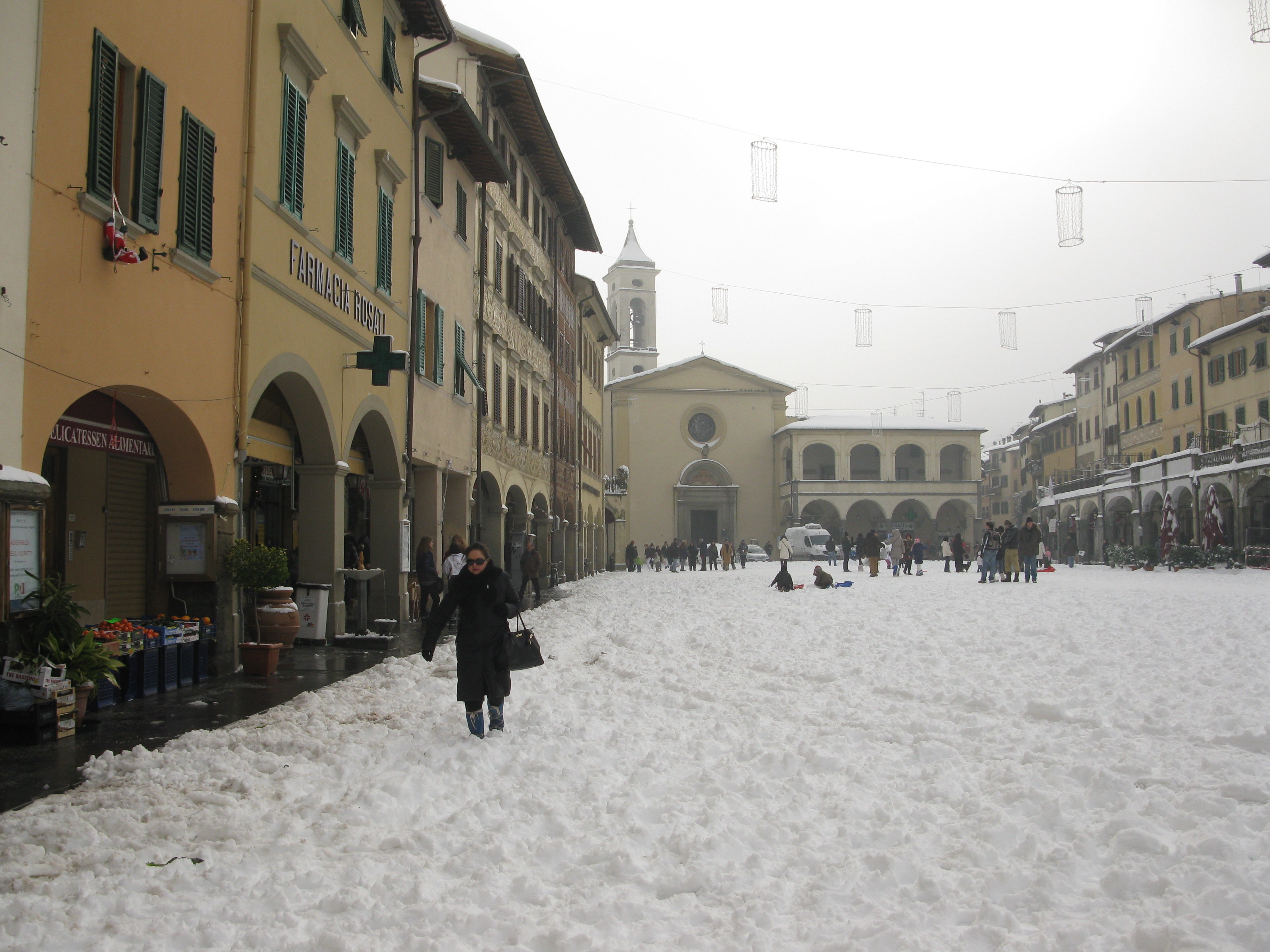 Piazza Marsilio Ficino, the main square of Figline Valdarno (Tuscany), after a snowfall